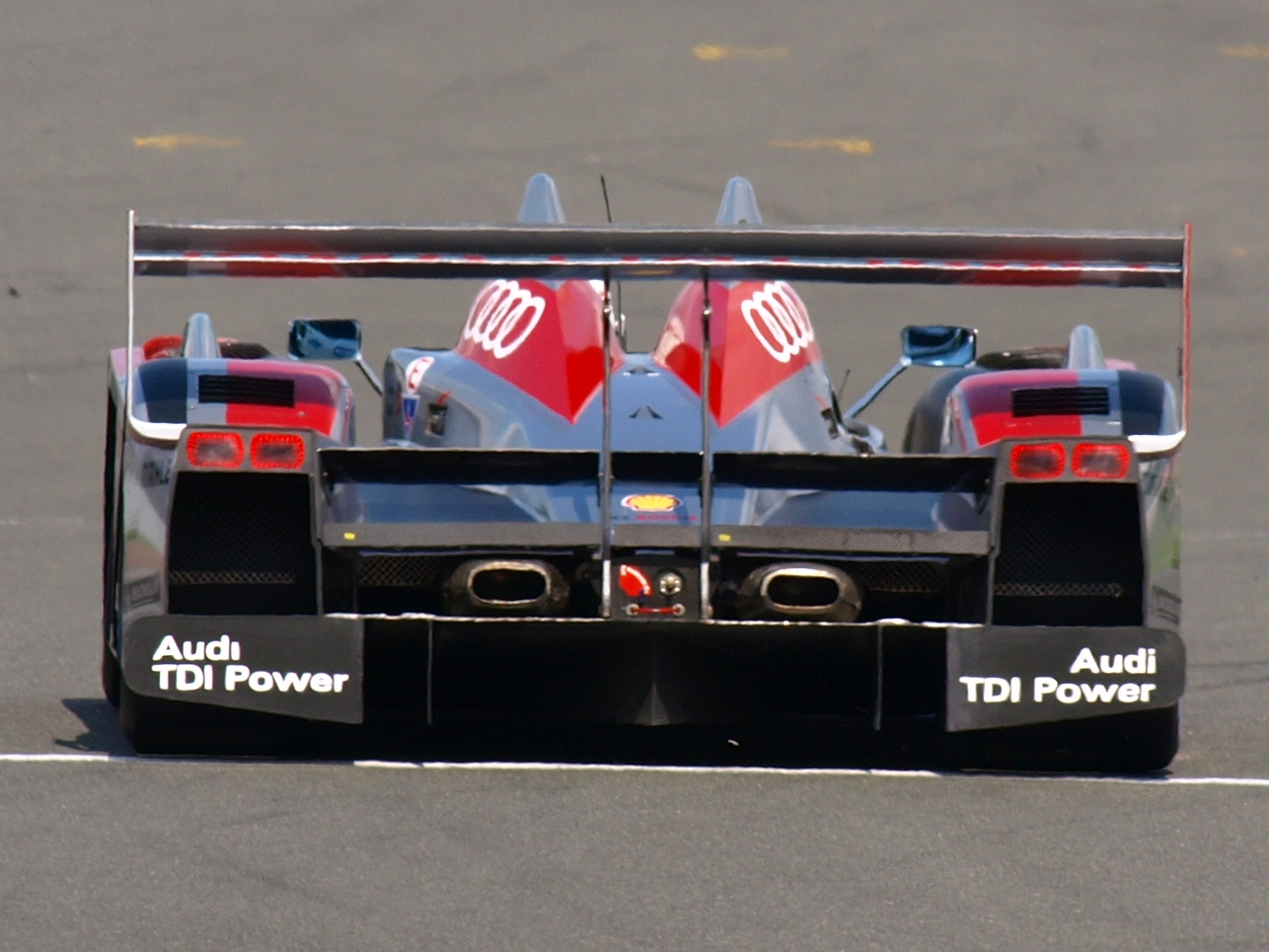 An Audi R10 at the 2008 1000km of Silverstone.